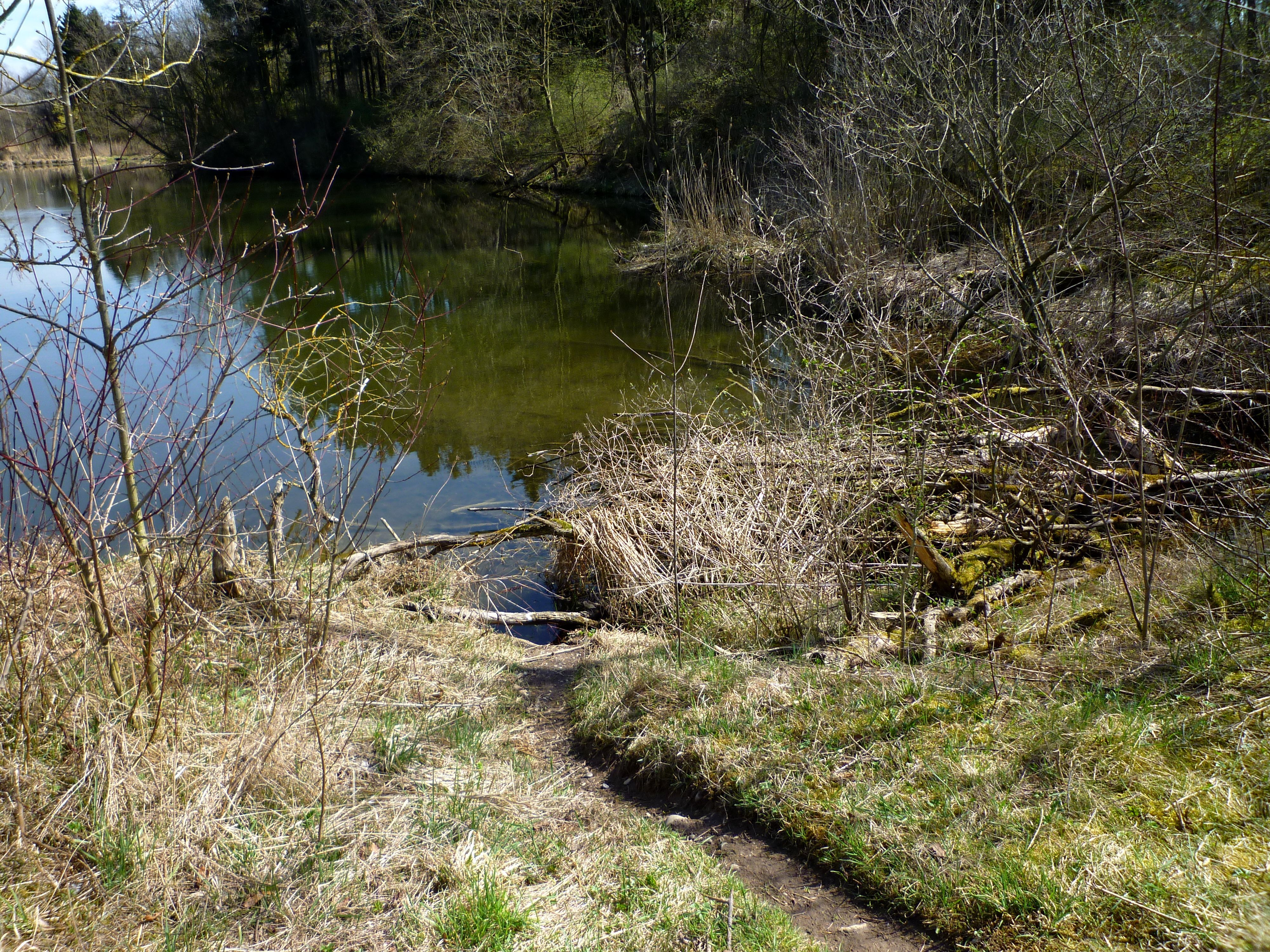 Elchingen - Bibers work at Vollmersee